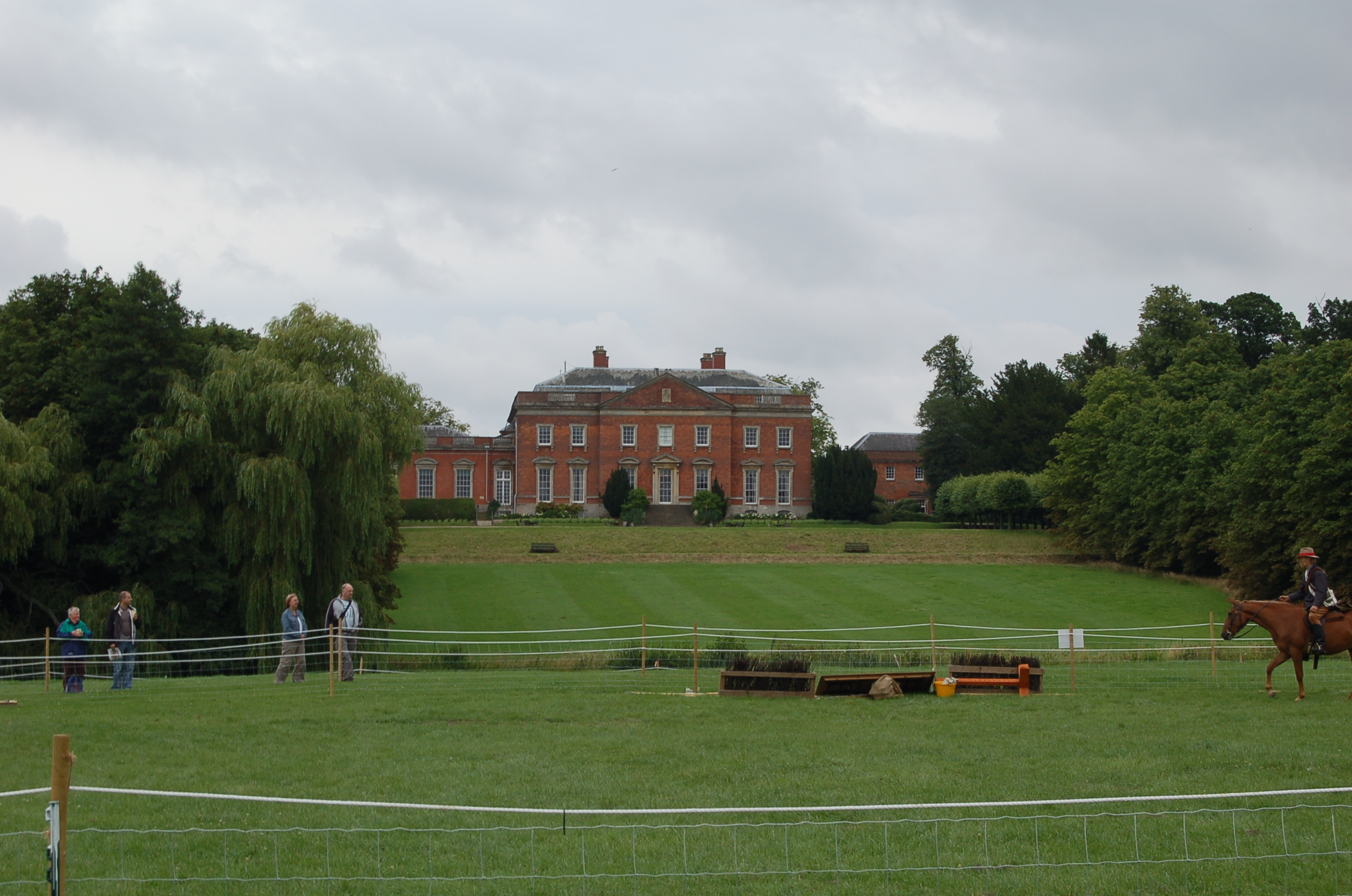 Kelmarsh Hall: the ground of which English Heritage Festival of History was set, July 2009. This was added from the site called under the name portableantiquities. See source for details.